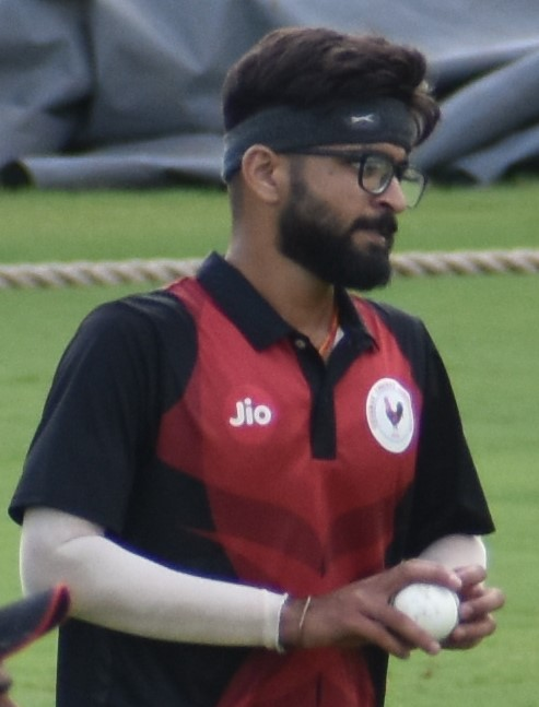 Indian cricketer Jayveer Parmar during the 2019-20 Vijay Hazare Trophy in Rajanukunte, Bangalore.